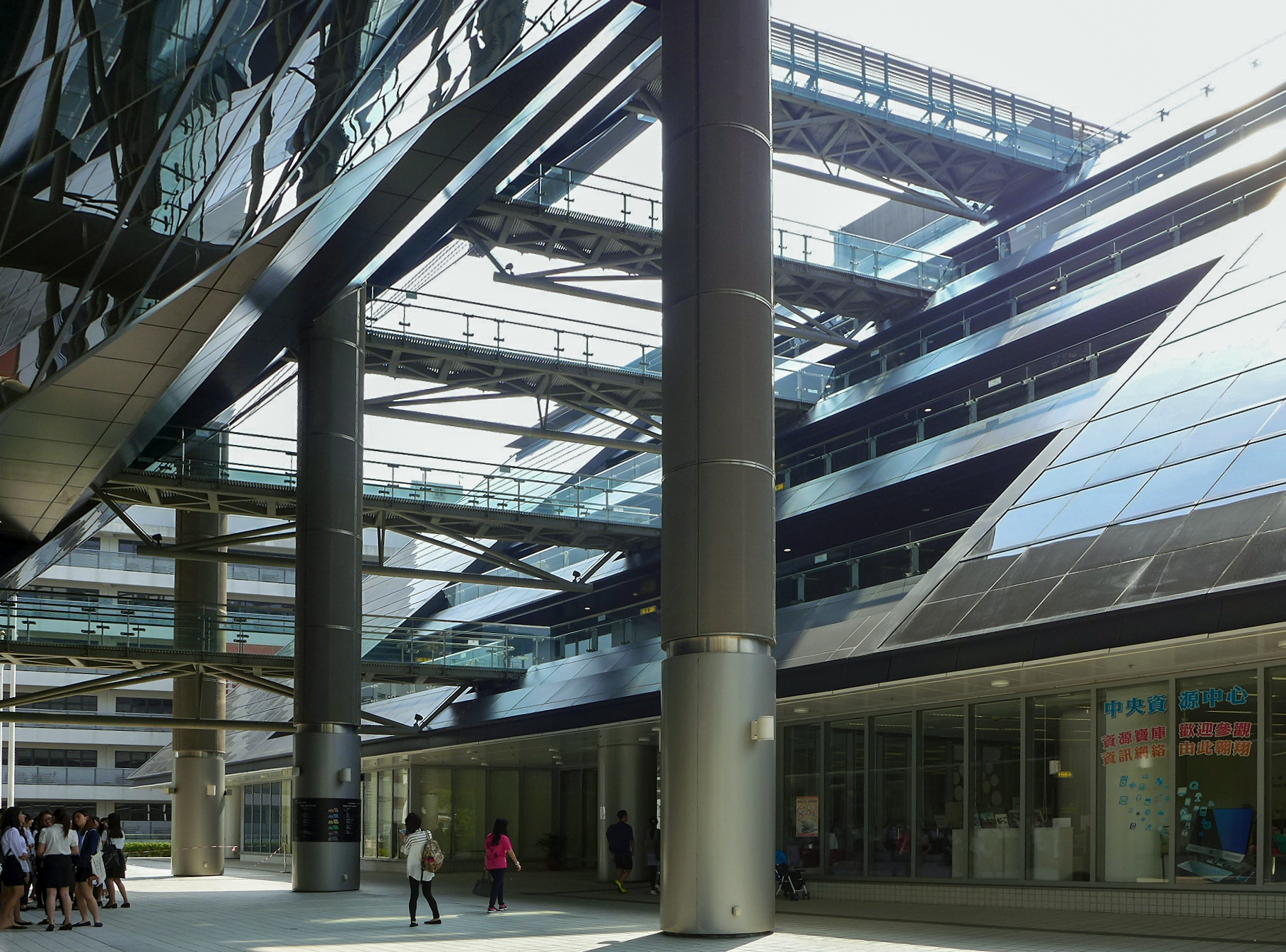 EDB Kowloon Tong Education Services Centre View